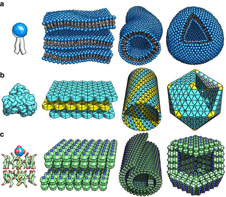 Stylized view of the lipid-like and protein-like self-assembly. (a) Lipid molecules form lamellar, tubular and vesicular structures, the flexibility and fluidity of which are emphasized in the illustration. (b) Proteins form lamellar, helical tubular and regular icosahedral structures with rigidity and crystallinity (hexagonal lattice in this case). (c) SDS@2β-CD assembles, in a protein-mimetic way, into lamellar, helical tubular and rhombic dodecahedral structures with inherent rigidity and in-plane, rhombic crystalline nature. In the molecular view, SDS is a anionic surfactant with a hydrocarbon tail (yellow) and a -(SO4)− headgroup (blue and red), while β-CD is a ring of hepta-saccharides (green C and red O atoms).